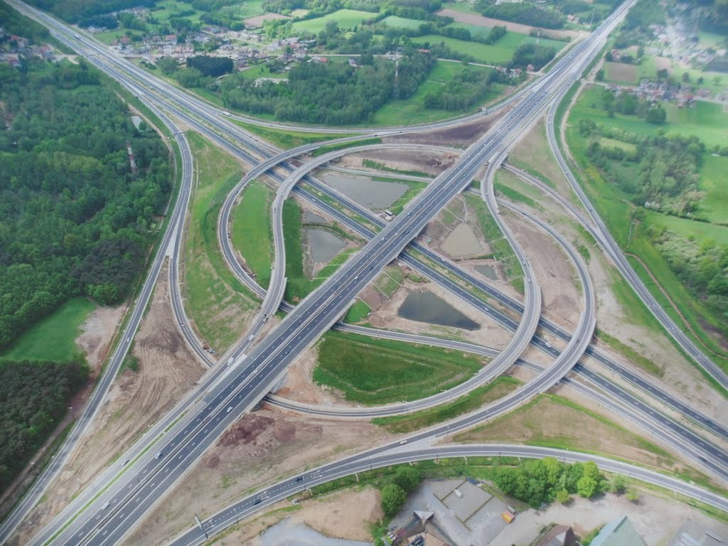 Lummen interchange